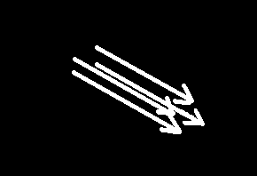 This image indicates the vectors that describe the optical flow obtained from two consecutive frames of a video sequence